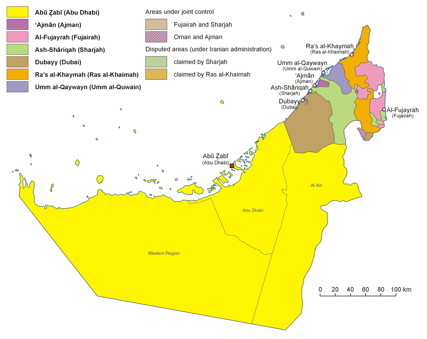 Administrative map of the United Arab Emirates in English